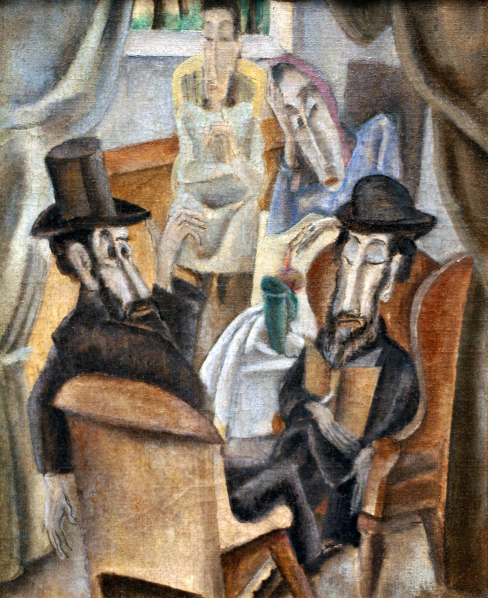 Max Weber, American, b. Russia, 1881-1961 Sabbath, 1919 Oil on canvas 12 1/2 x 10 in. (31.8 x 25.4 cm) The Jewish Museum, New York Gift of Joy S. Weber, 2005-51 Wikipedia Loves Art at the Jewish Museum (New York City) This photo of item # 2005-51 at the Jewish Museum (New York City) was contributed under the team name "shooting_brooklyn" as part of the Wikipedia Loves Art project in February 2009. Jewish Museum (New York City) The original photograph on Flickr was taken by shooting brooklyn—please add a comment to the original Flickr page whenever a use has been made on Wikipedia or another project. Project galleries on Flickr: this institution, this team